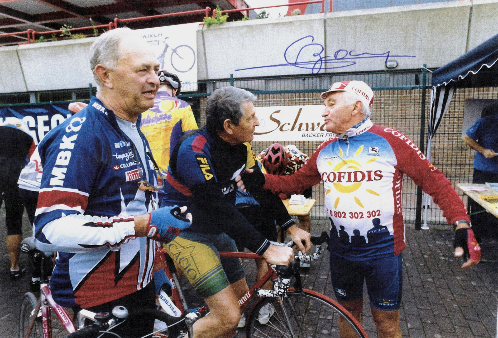 Jean-Pierre Schmitz (left), Aldo Bolzan (middle), Jean Stablinski (right)